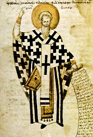 Saint Basil of Caesarea, 15th century micrography from Mount Athos